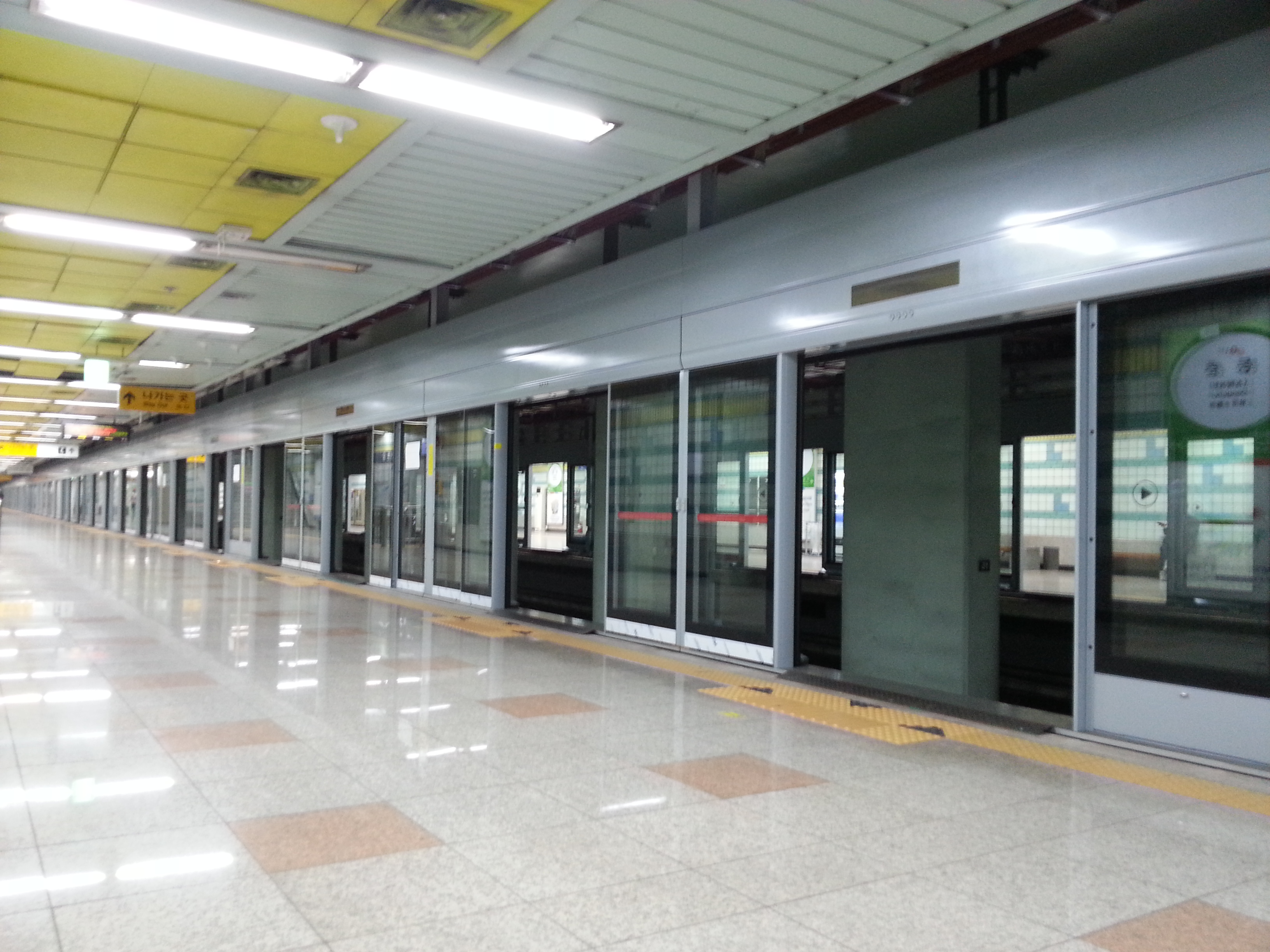 Screen doors installed in Dongchun Station.